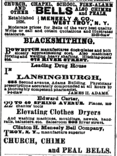 Both of these advertisements for the related and competing Meneely bell foundries appeared in the Troy Daily Times on May 20, 1891.